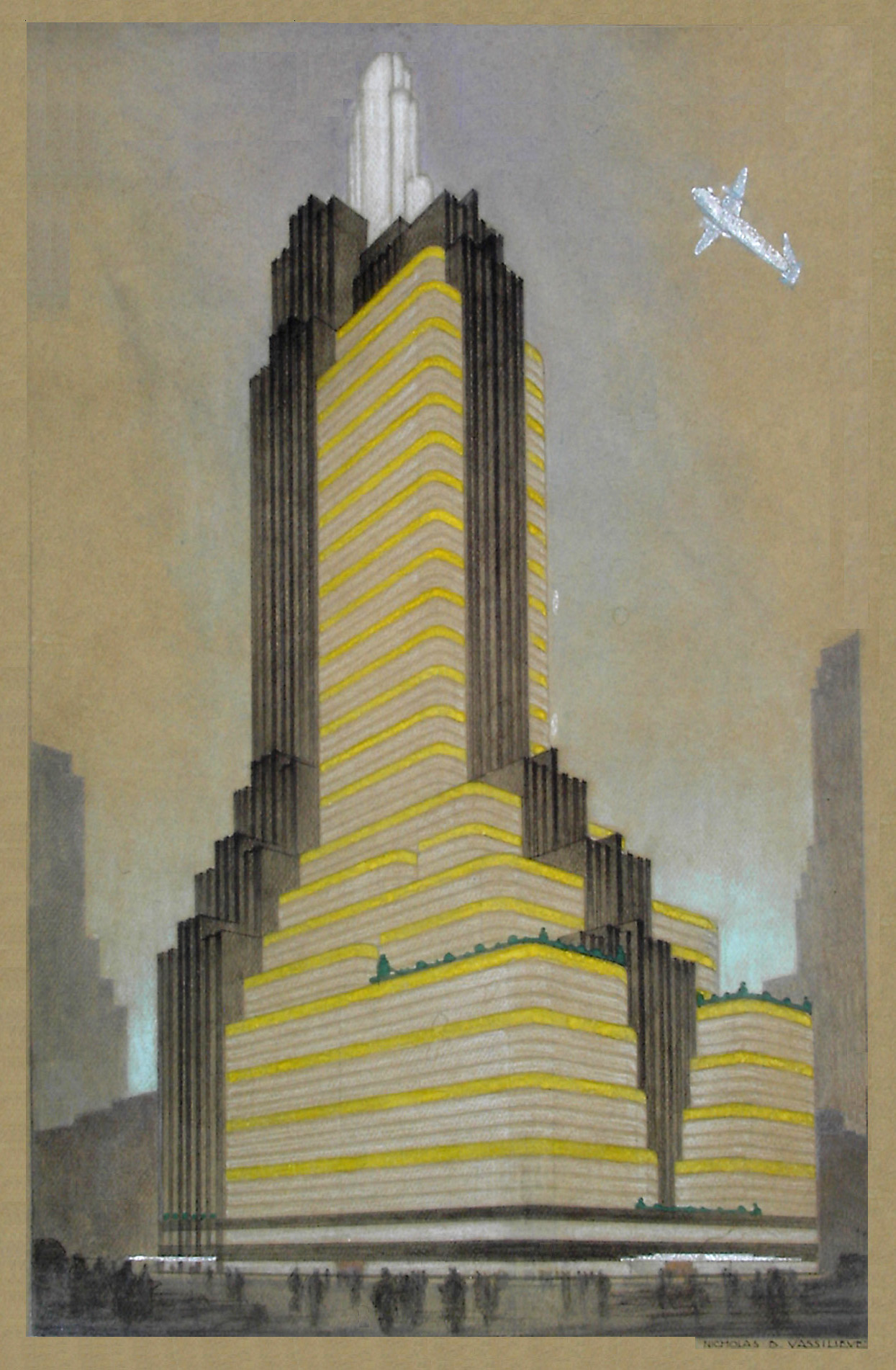 Skyscraper study for New York City by Nicholas B, Vassilieve (c.1931)